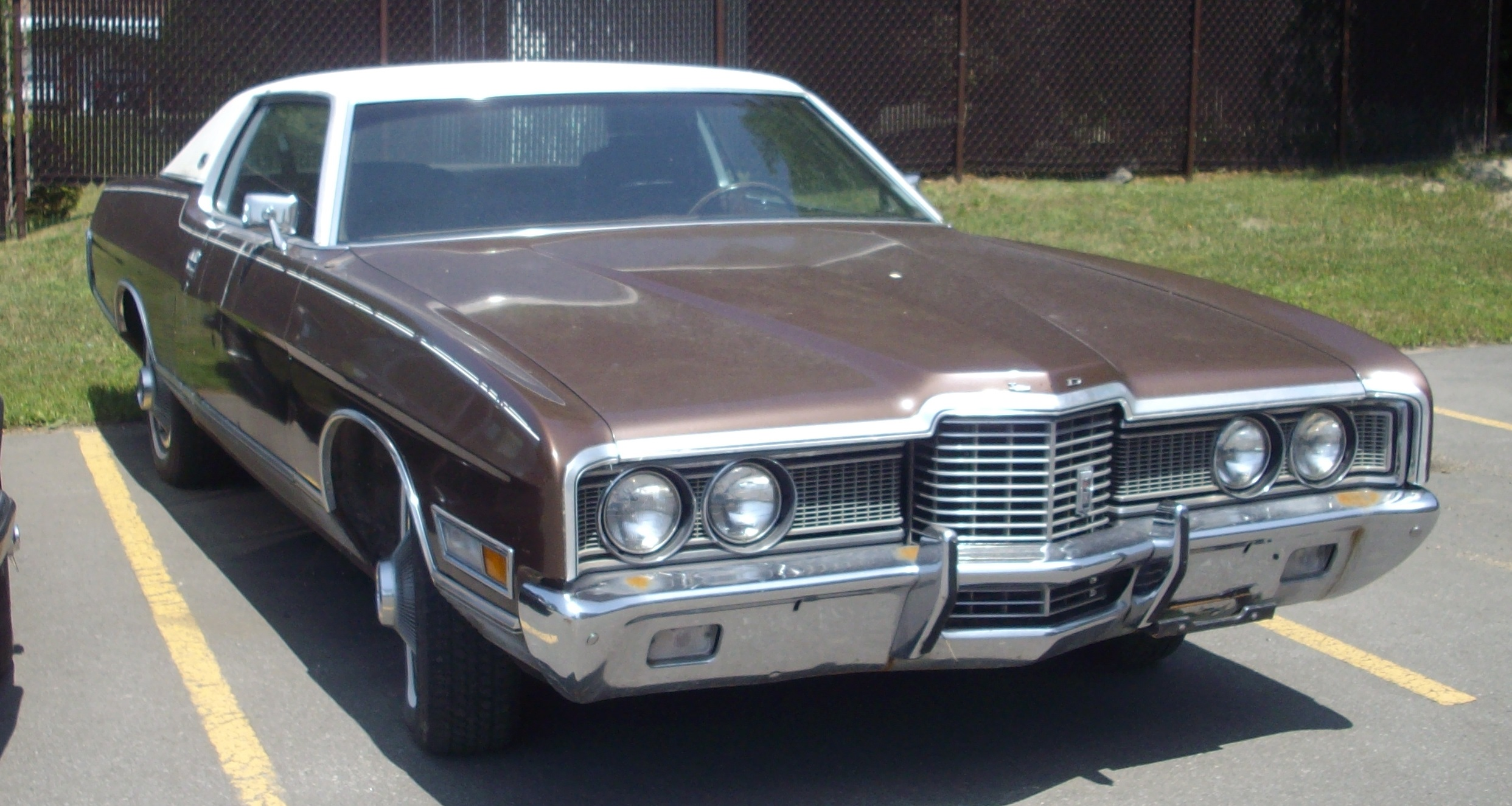 1972 Ford LTD 2-Door Hardtop photographed in Hudson, Quebec, Canada.